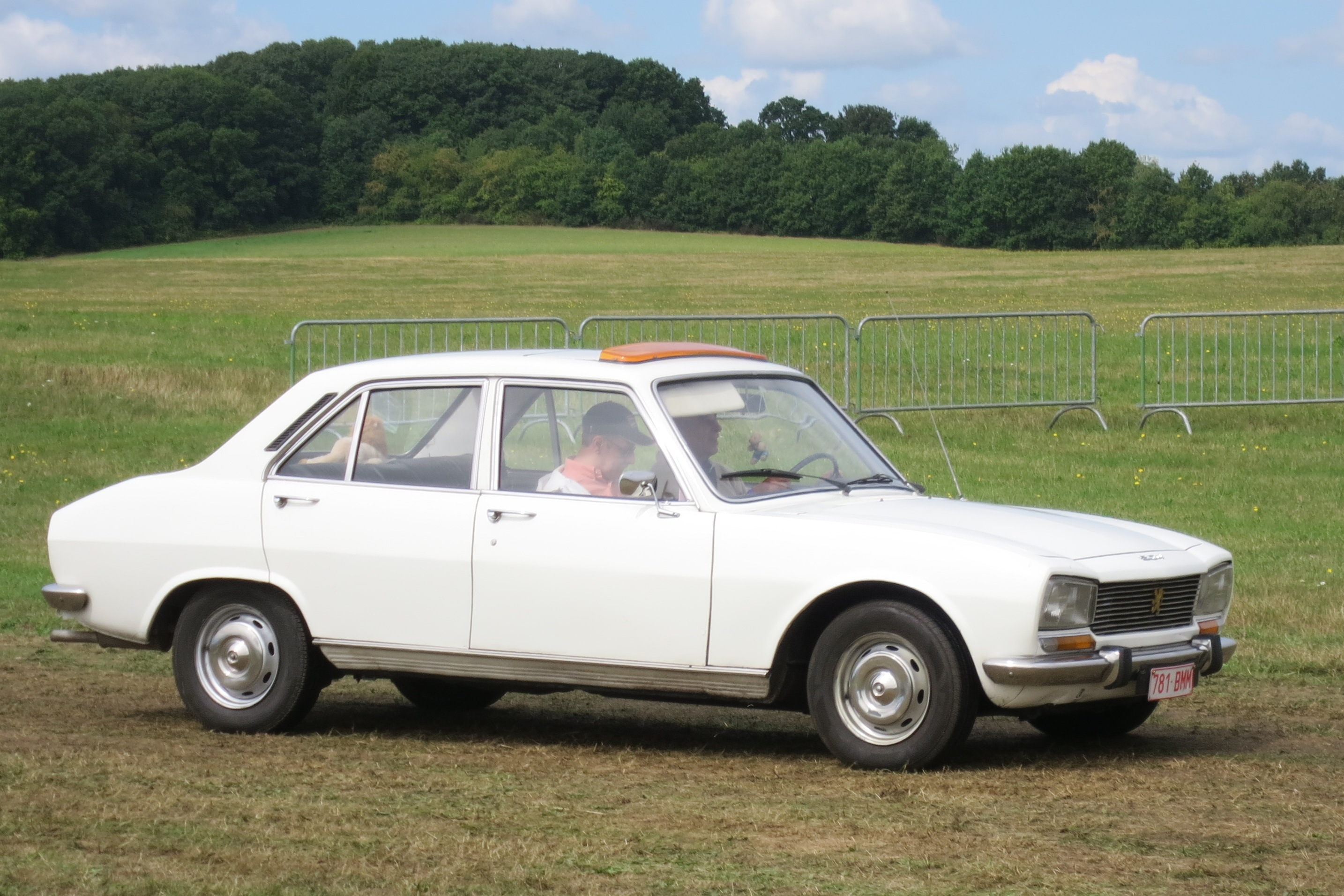 Peugeot 504 en Belgique